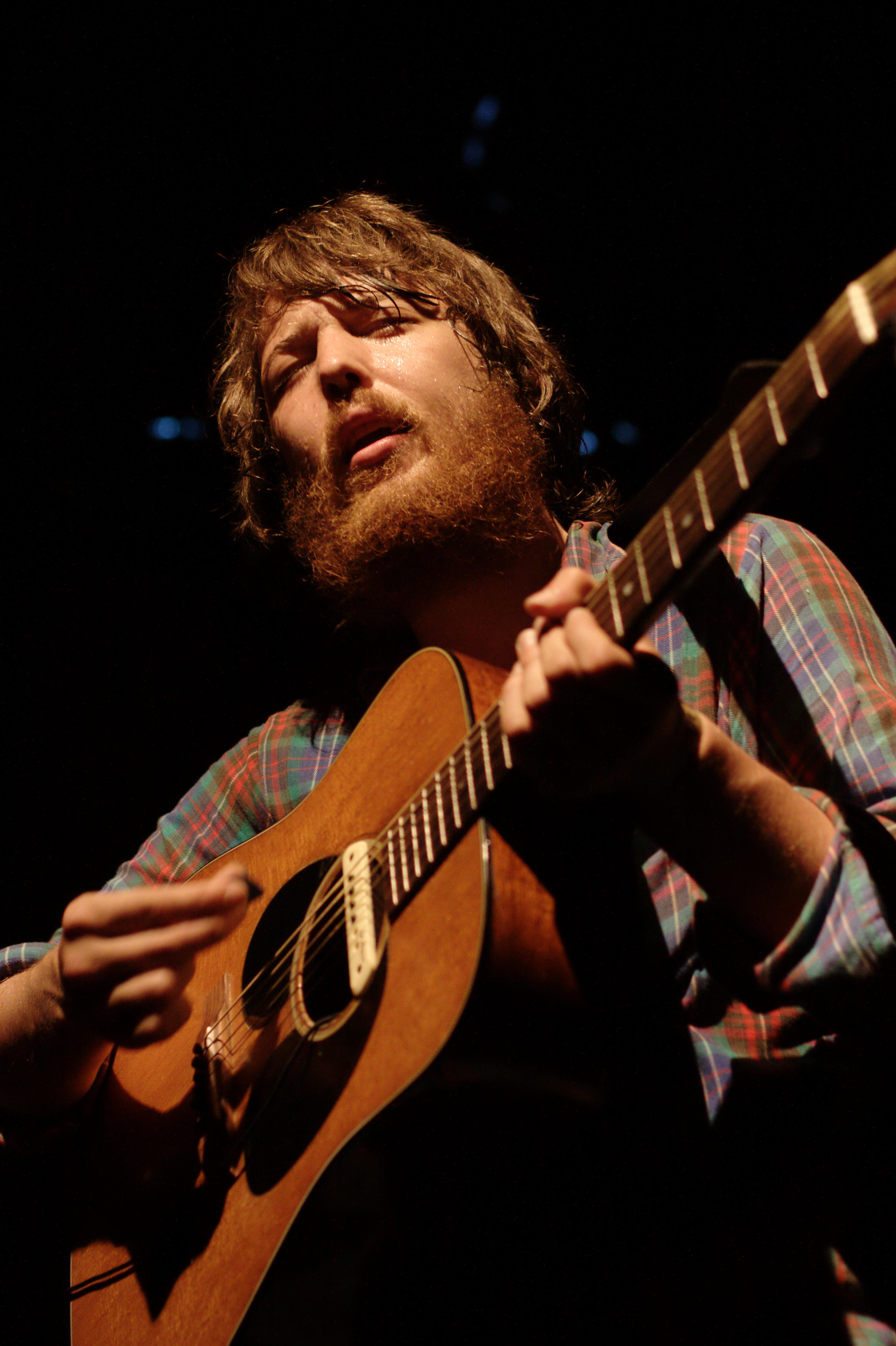 Fleet Foxes - Robin Pecknold at Paradiso in Amsterdam, Holland.